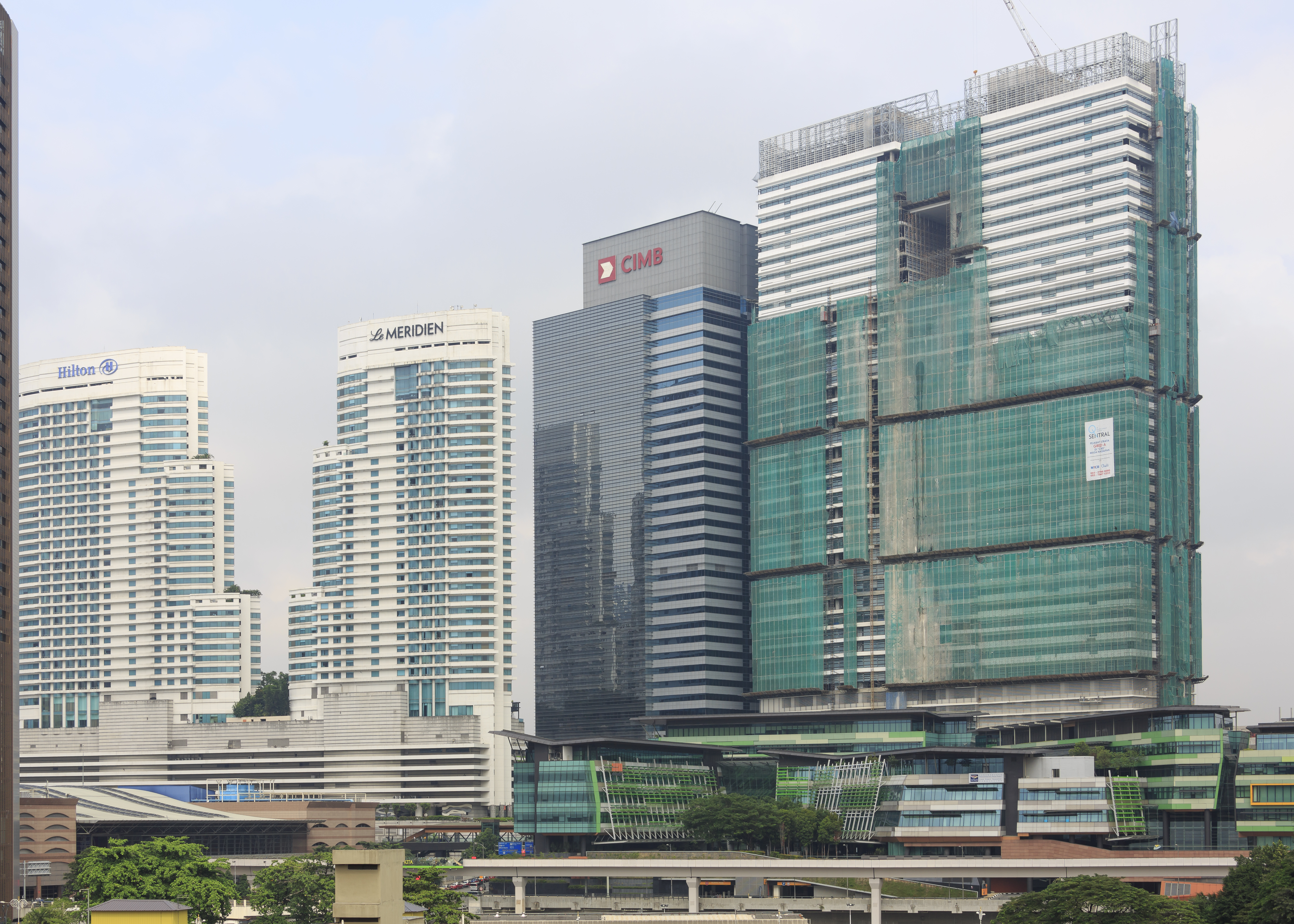 Kuala Lumpur, Malaysia: Skyline at KL Sentral, comprising Hilton Hotel, Hotel LeMeridien, CIMB Investment Bank Headquarters, Quill 16 and Platinum Sentral